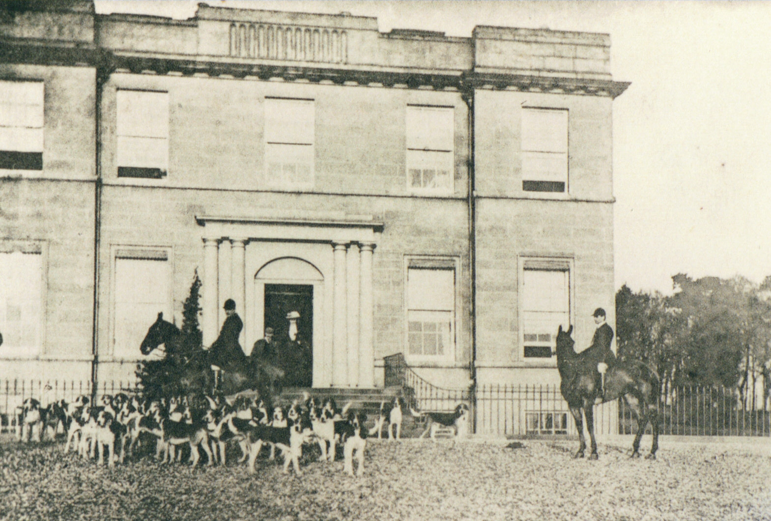 The Eglinton Hunt at Monkcastle House, Dalry, Scotland